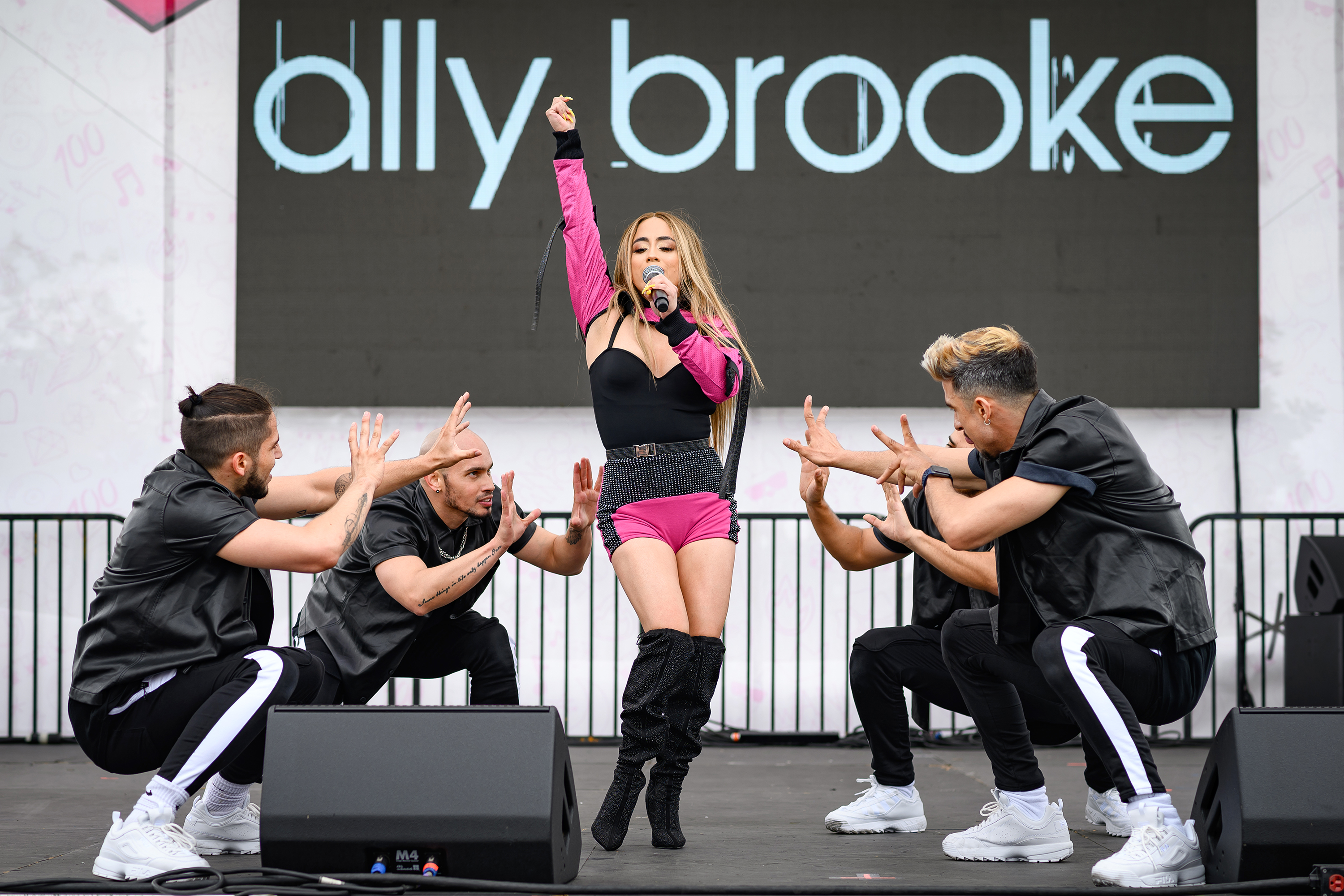 Ally Brooke performing live at the Wango Tango Village in Dignity Health Sports Park in Carson, California, on Saturday, June 1, 2019.